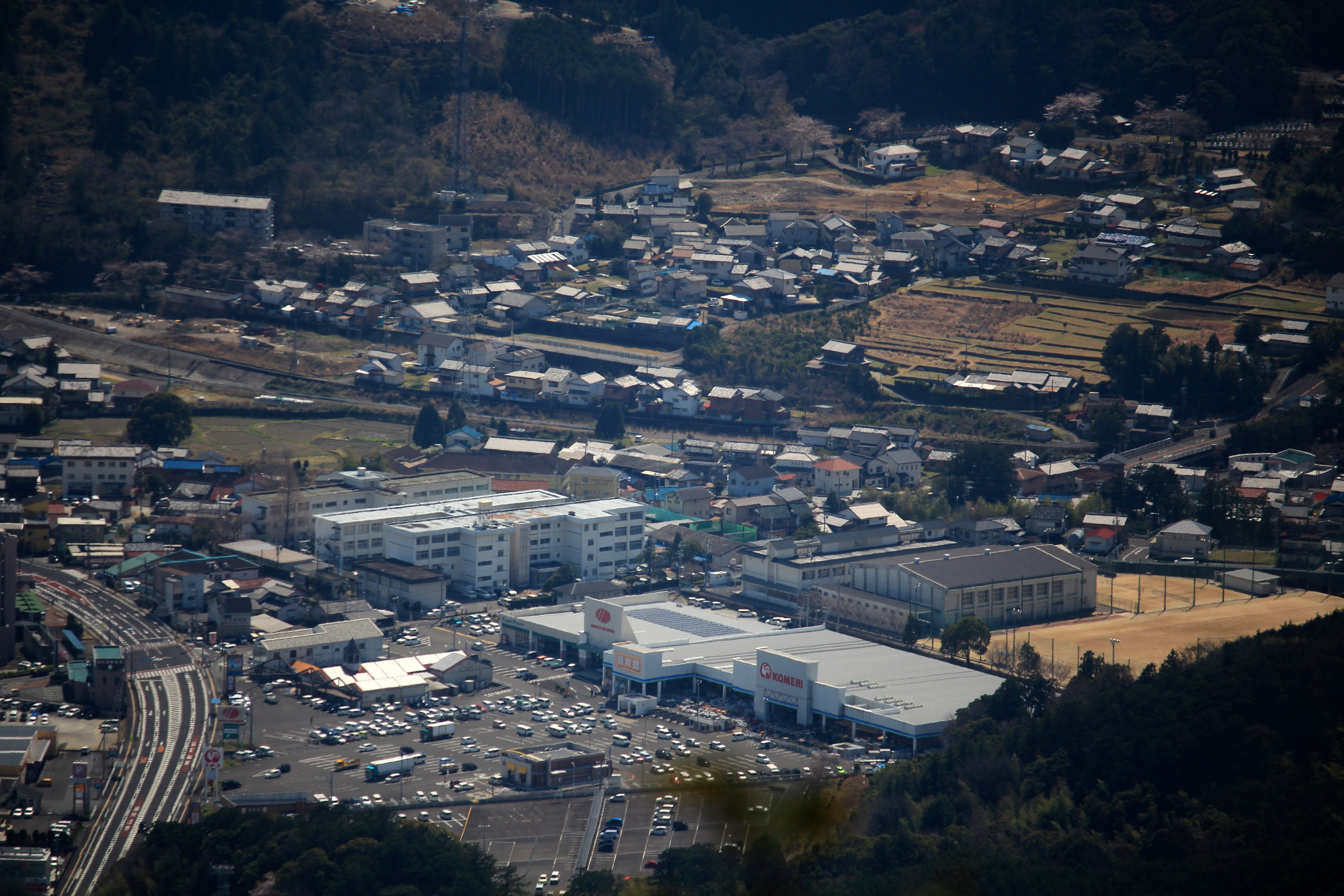 Owase High School seen from Mount Benshi, in Owase, Mie prefecture, Japan.